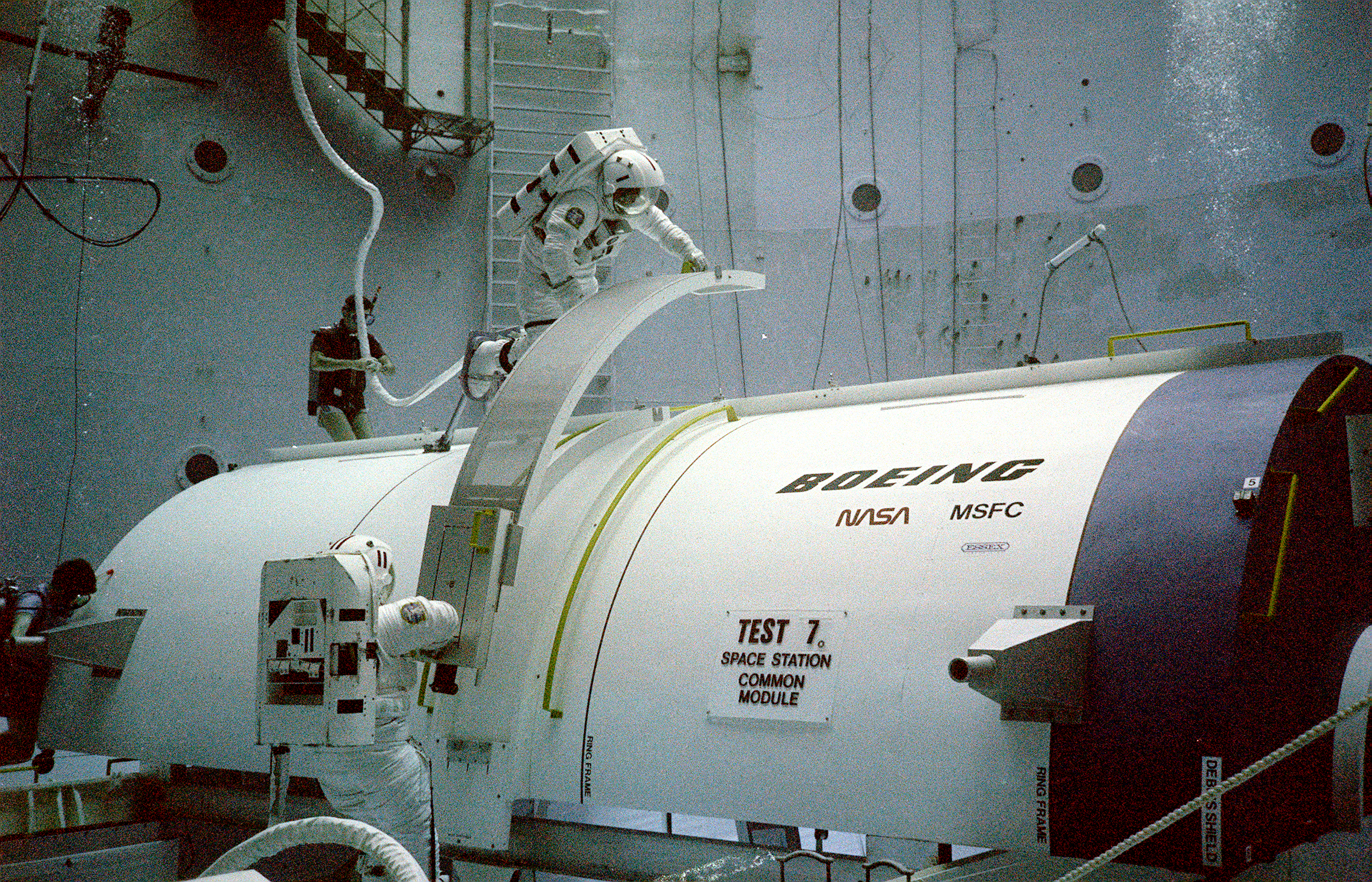 The image shows two astronauts practicing construction techniques to build Space Station in Neutral Buoyancy Simulator (NBS) at Marshall Space Center (MSFC) in 1985, early in the Space Station program. NASA began operating the NBS at MSFC in 1968. The NBS provided an excellent weightlessness environment to astronauts and engineers for testing hardware designed to operate in space while also affording the opportunity to evaluate techniques that were used in space to assemble structures such as Skylab, Hubble Space Telescope and the International Space Station. The NBS tank is 75 feet in diameter, 40 feet deep, and contains 1.3 million gallons of water, and can accommodates structures as large as the 43-foot Hubble Space Telescope mockup. Engineers direct NBS activities from a state-of-the-art control room located on the first floor adjacent to the tank.